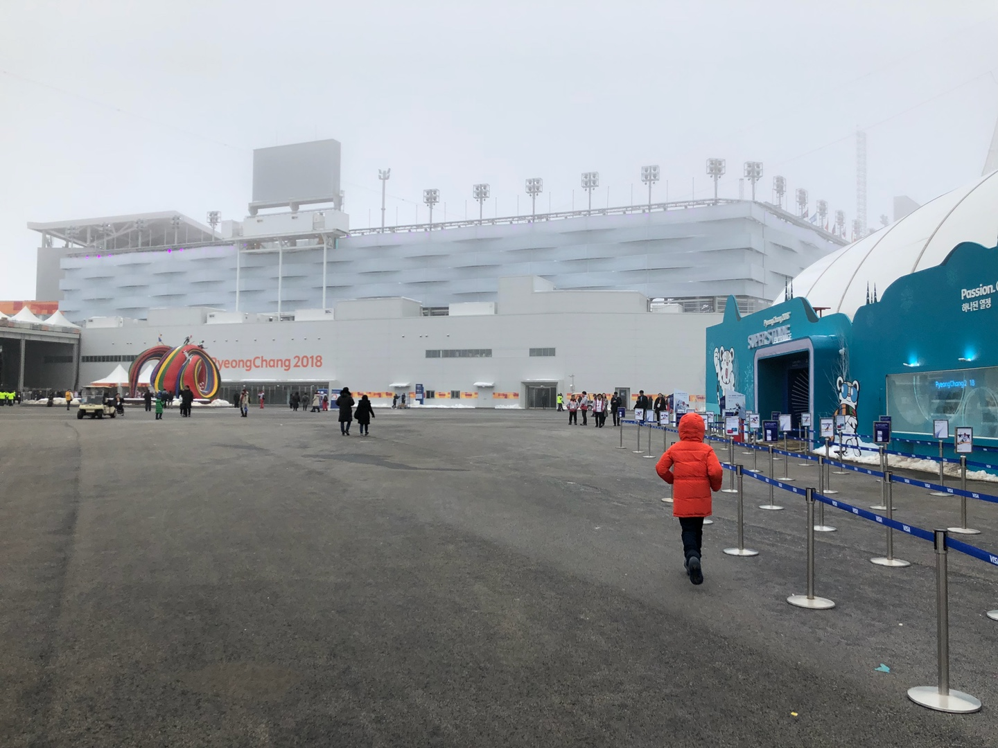 Pyeongchang Olympic Plaza near Pyeongchang Olympic Stadium, taken in March 9, 2018.